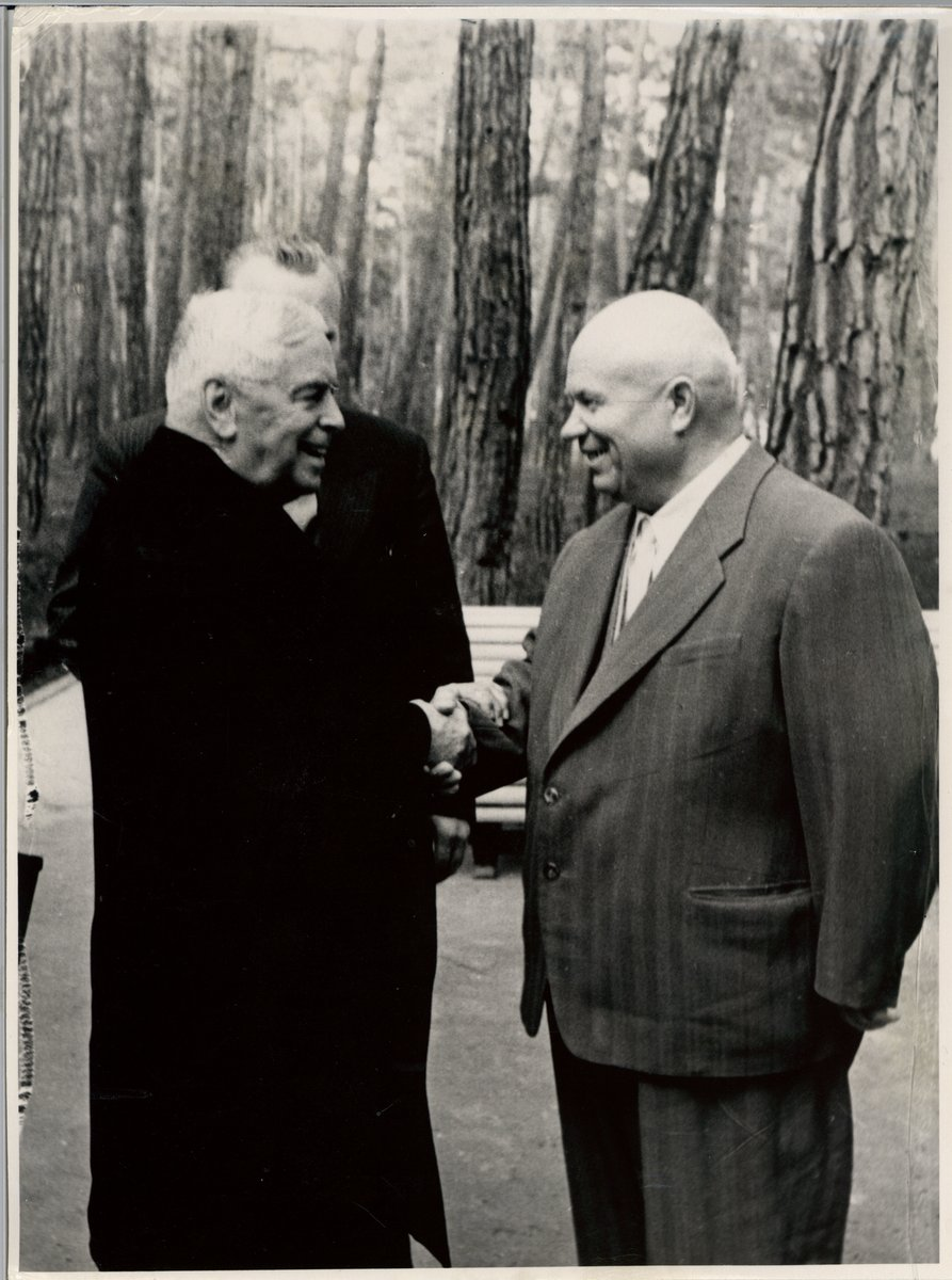 On April 20 1960, New Zealand Prime Minister Walter Nash held talks with USSR leader Nikita Khrushchev. The meeting took place on the Black Sea resort of Gagra, which is in now modern day Georgia. During the talks Nash and Khrushchev discussed nuclear disarmament and the future of Germany. Walter Nash was Prime Minister of New Zealand from 1957 to 1960. After defeat in the 1960 election Nash remained MP for Hutt until his death in 1968. Nikita Khrushchev was leader of the USSR from 1953 to 1964, as First Secretary of the Communist Party. This image is from the Walter Nash Papers. Other images from the Nash papers have been digitised and are available to view in an online exhibition Other notable items in the collection include images of Nash and Indian Prime Minister Nehru and Nash meeting Australian Prime Minister Robert Menzies. These items can be seen in person in the Wellington Reading Room of Archives New Zealand. Reference: AEFZ 22625 W5727 684 2163/0056 For updates on our On This Day series and news from Archives New Zealand, follow us on Twitter Material from Archives New Zealand